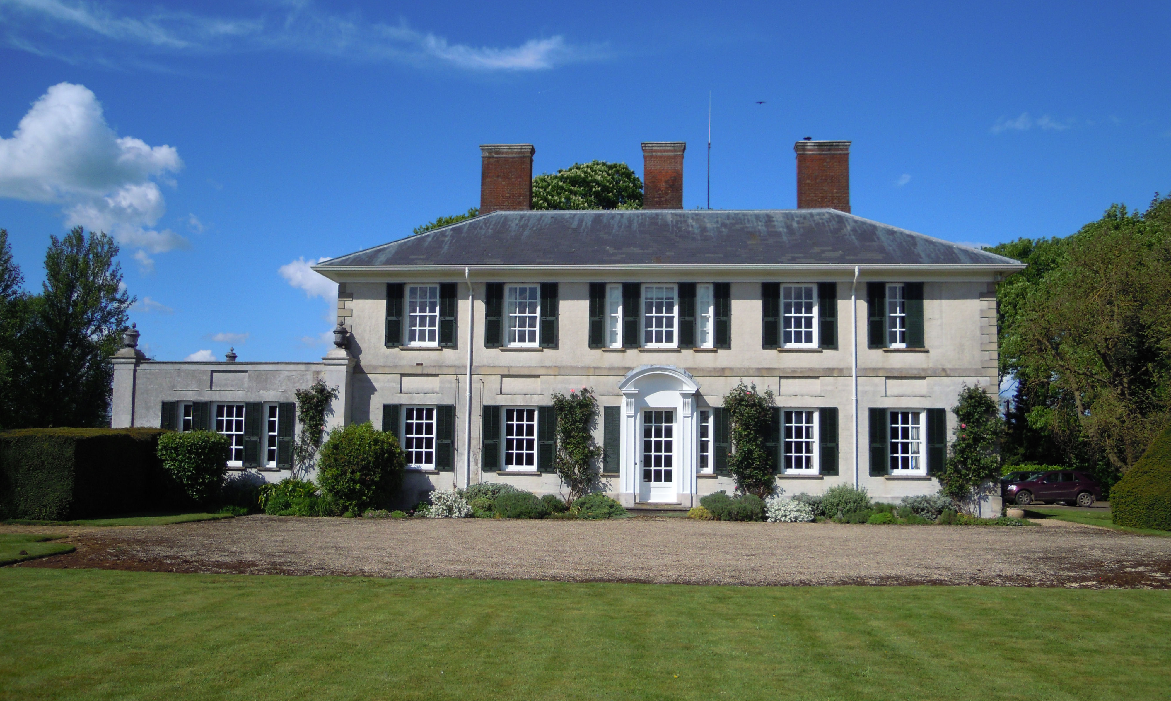 The façade of Ashwell Bury